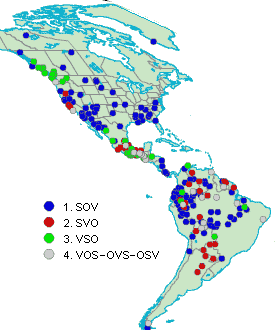 Inflectional Morphology across world languages